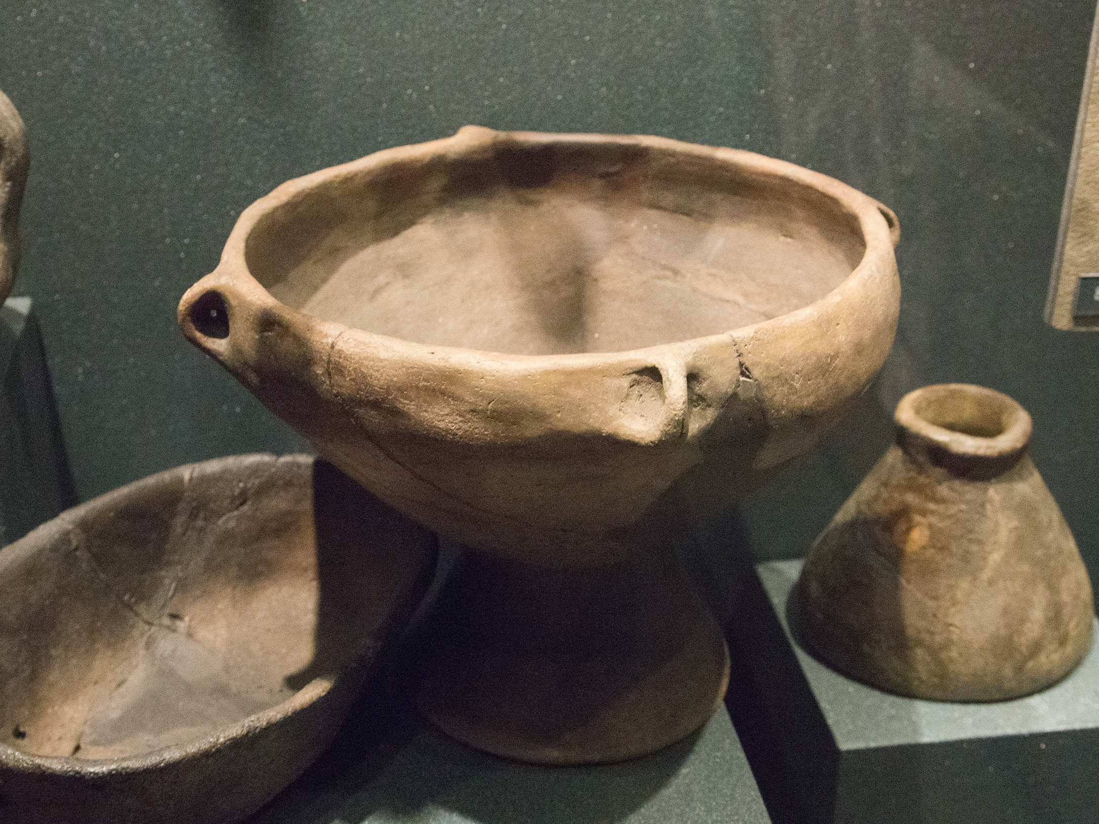 The footed bowl and the tub, were shapes that first apeared in the Late Neolithic (or Copper Age) Jordanow culture. Finds from Praha Bubeneč. The City of Prague Museum.